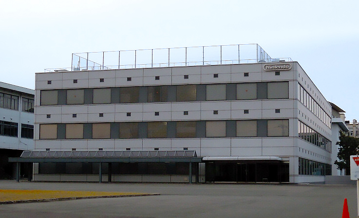 Nintendo Kyoto Research Center (Former headquarters)